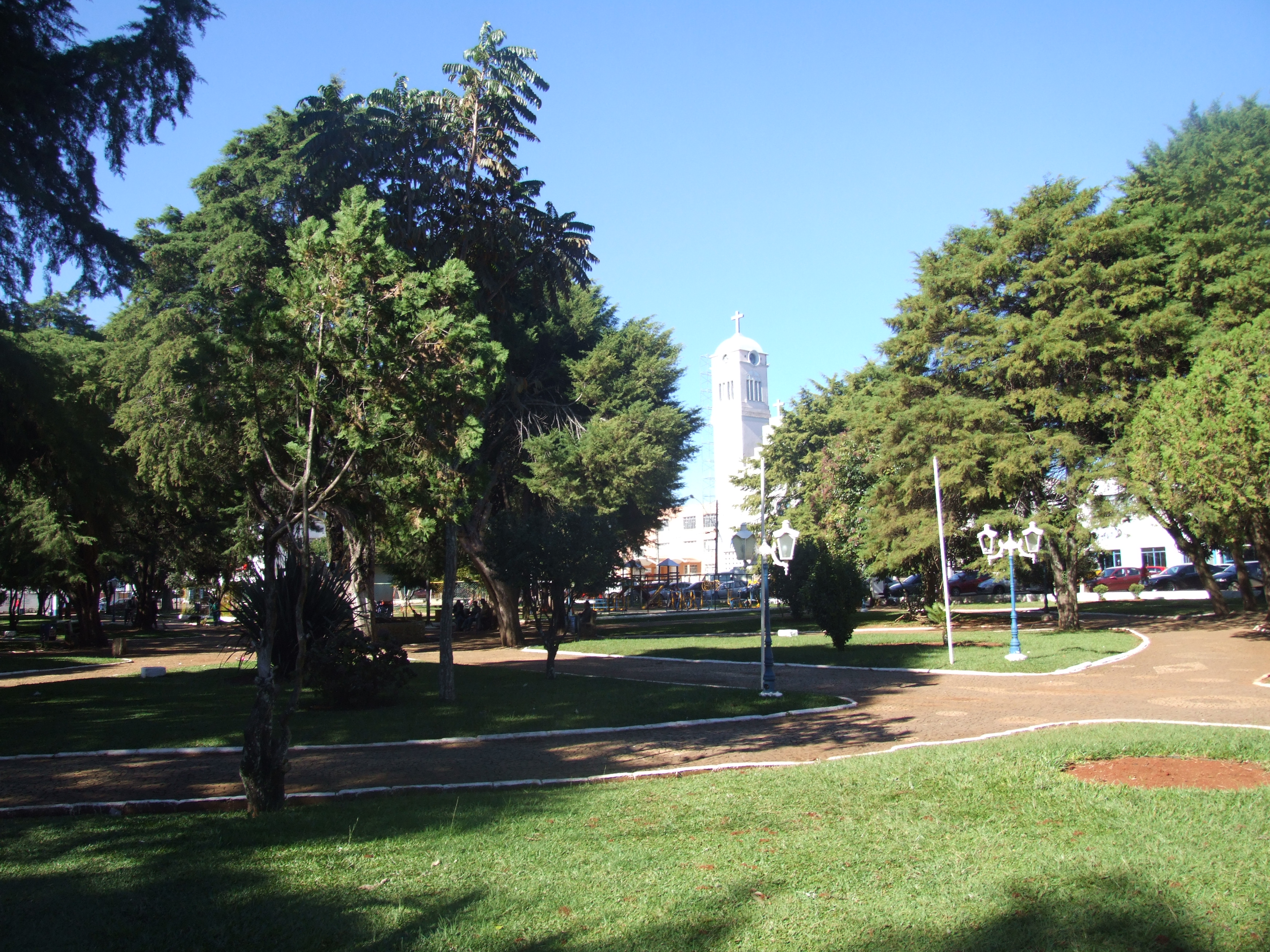 Lauro Müller Square, Campos Novos, Santa Catarina, Brazil